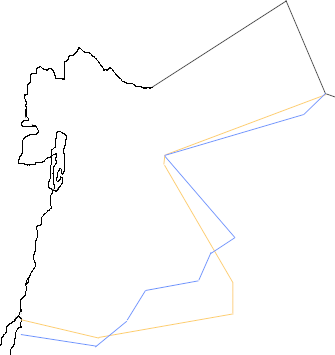 Agreement for the Determination of Boundaries between the Hashemite Kingdom of Jordan and the Kingdom of Saudi Arabia, 1965